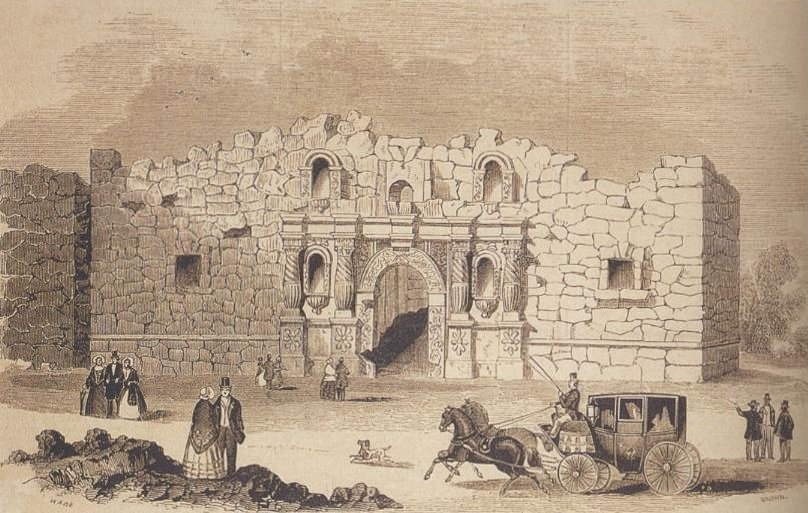 This is a drawing of the Alamo Mission in San Antonio. It was first printed in 1854 in Gleason's Pictorial Drawing Room Companion and was reprinted in Frank Thompson's 2005 "The Alamo", p 106.